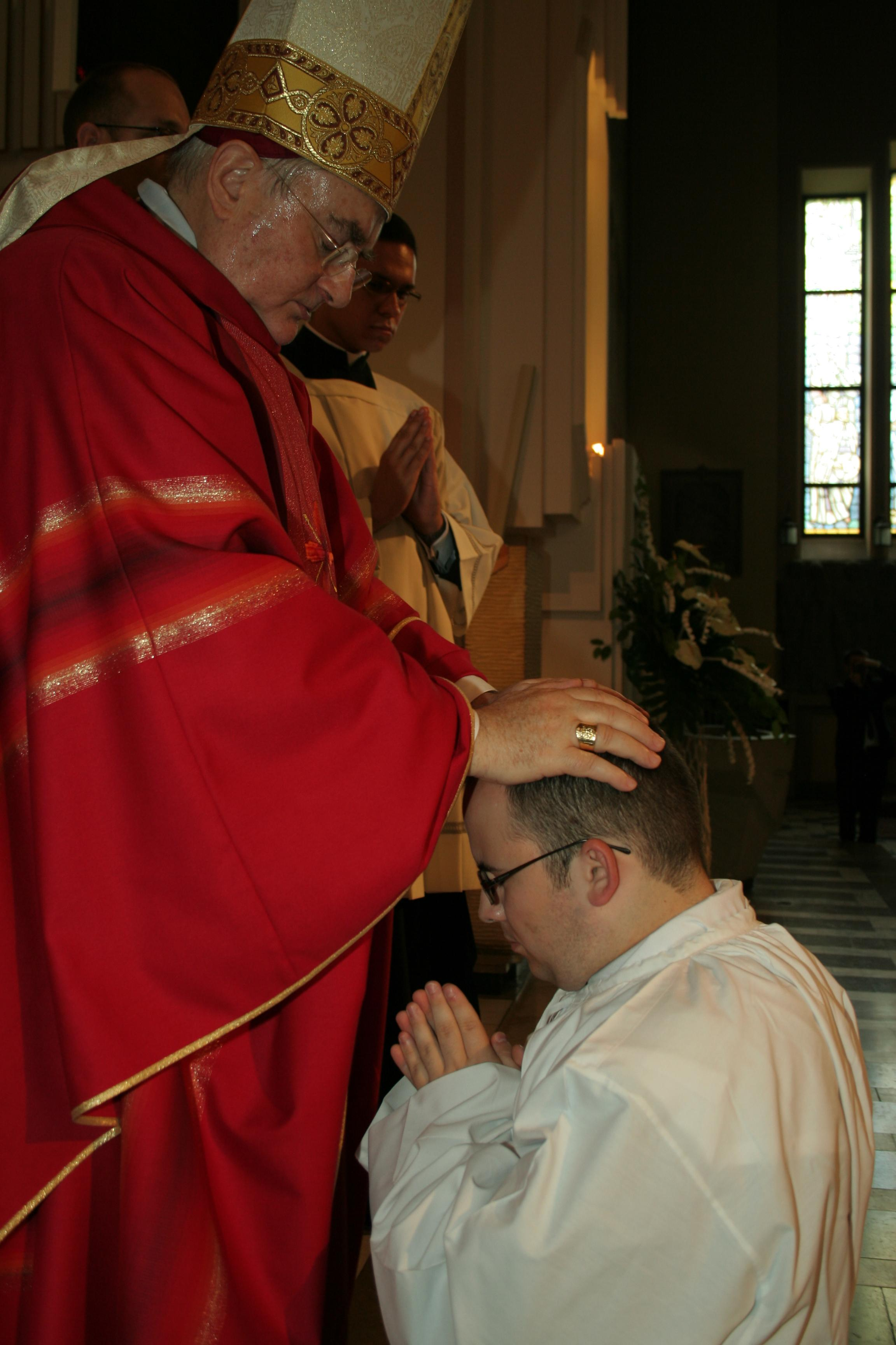 an ordaining to the diaconate in Poland by archbishop Henryk Hoser